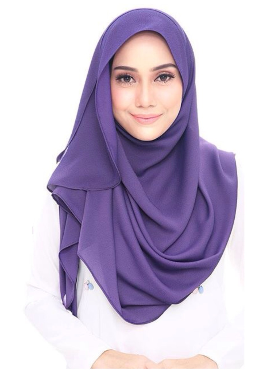 Mia Ahmad